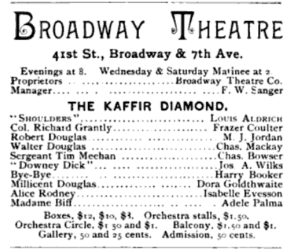 Advertisement for play "The Kaffir Diamond" at the Broadway Theatre (41st Street), in the September 1888 issue of The Theatre (Vol. IV, No. 18)